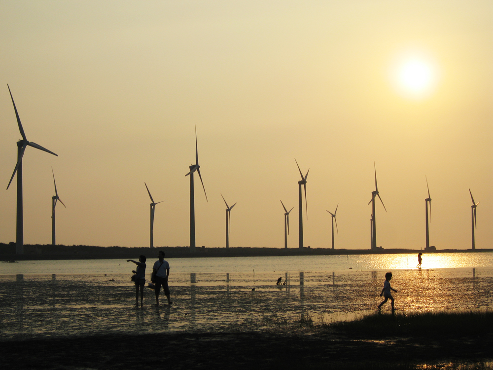 Sunset of wind turbines from Kaomei Wetland in Qingshui Township,Taichung County,Taiwan.